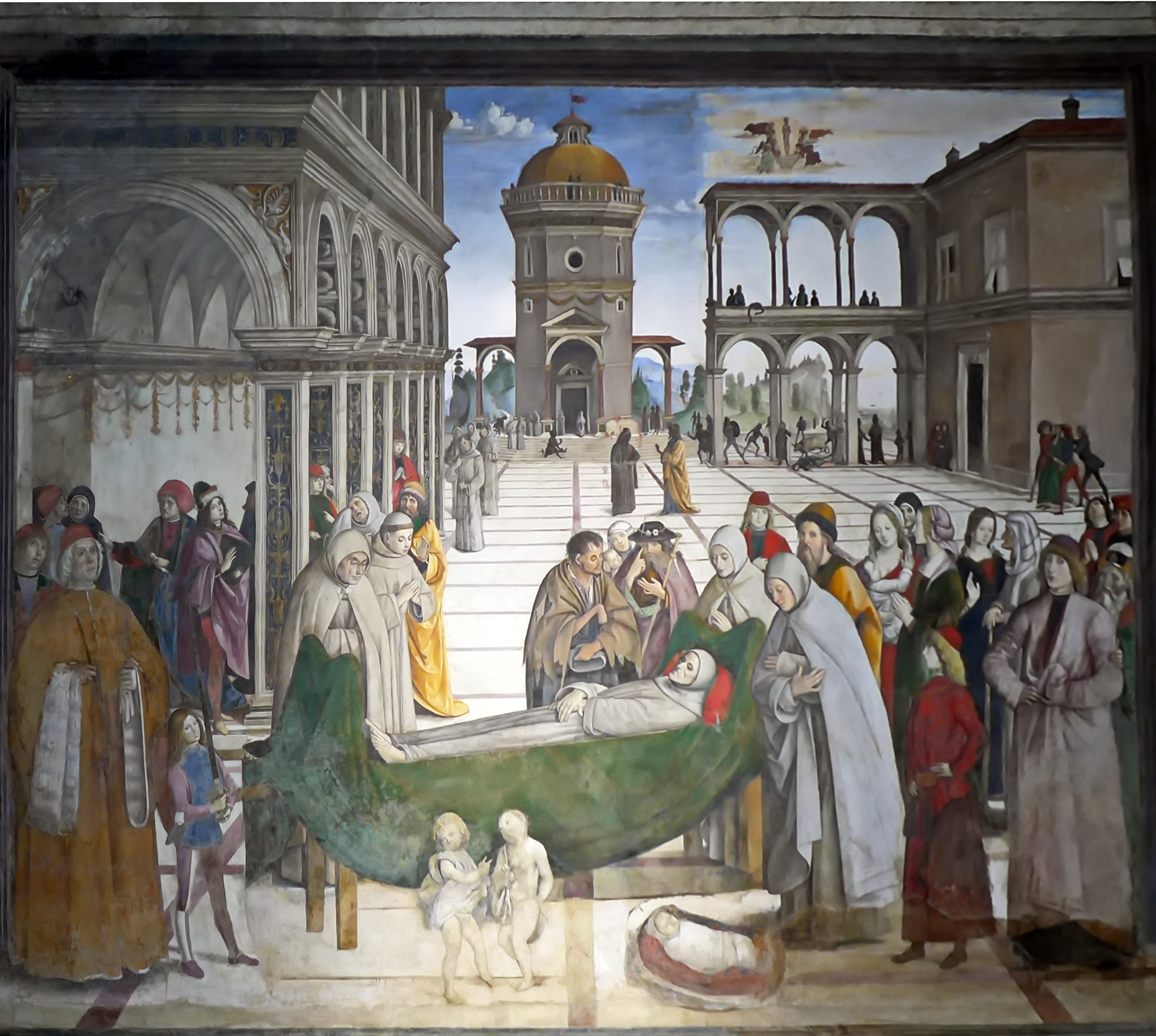 Santa Maria in Aracoeli (Rome); Cappella Bufalini; Pinturicchio; Death of San Bernardino